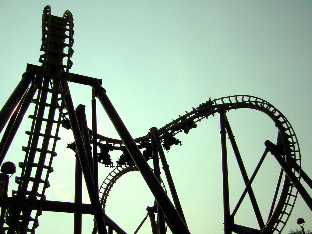 Invertigo (formely Face/Off) roller coaster at Kings Island.